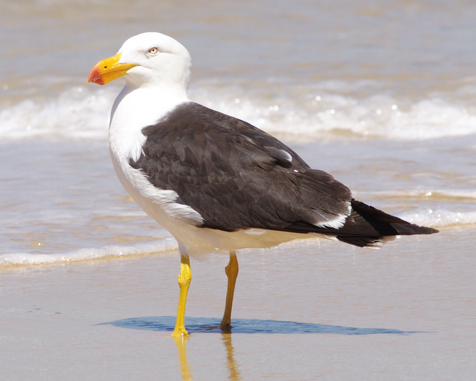 Pacific Gull, Larus pacificus; wild bird